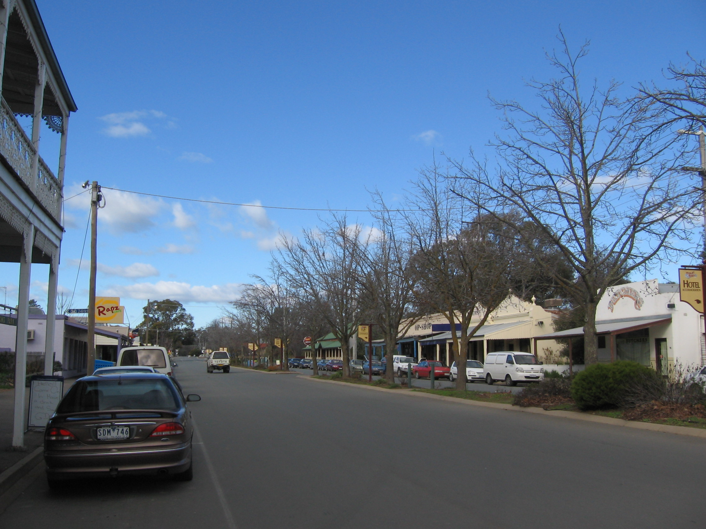 Main street of Violet Town, Victoria